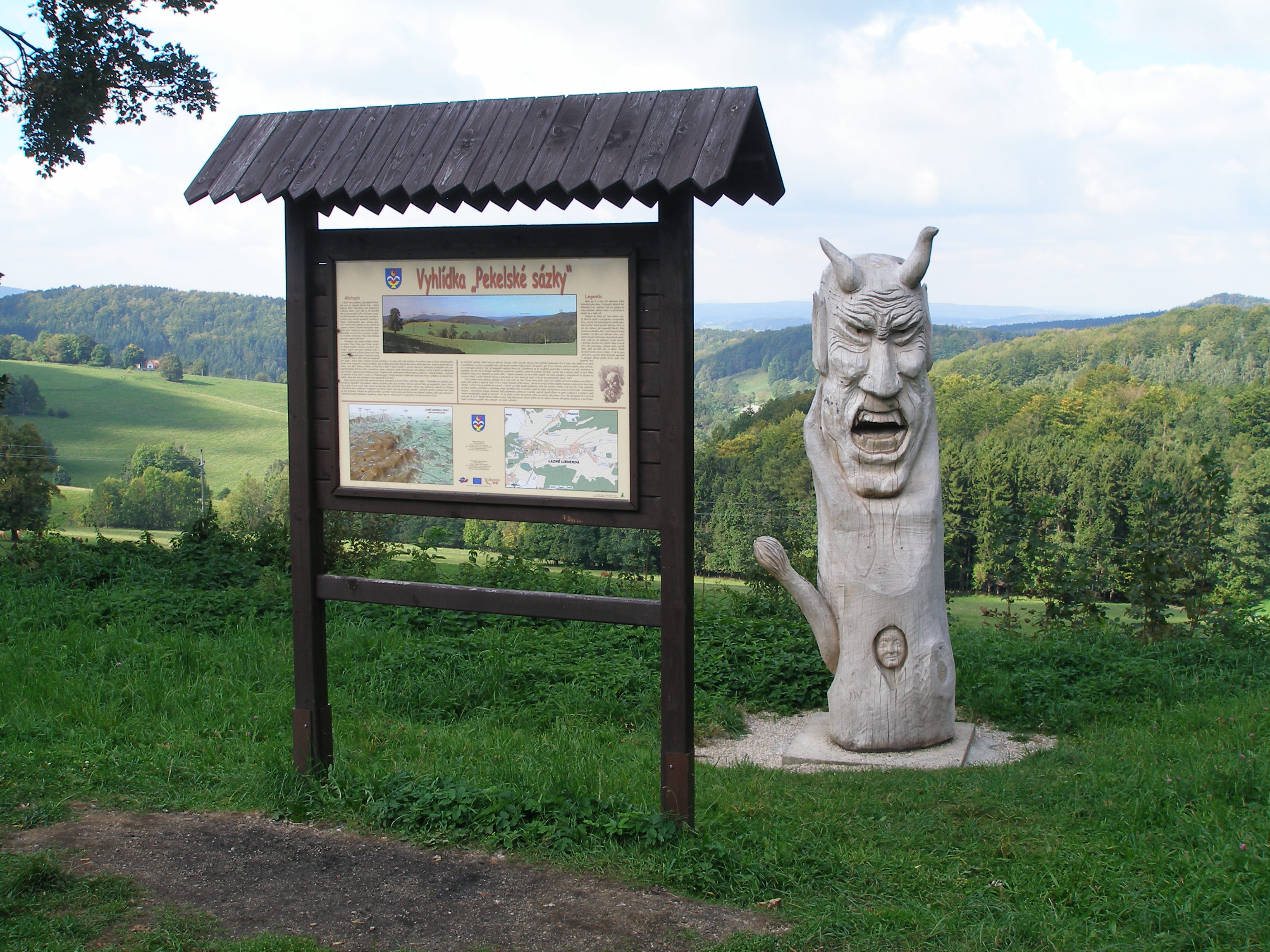 Vyhlídky nad Libverdou, Vyhlídka Pekelské sázky (all view).